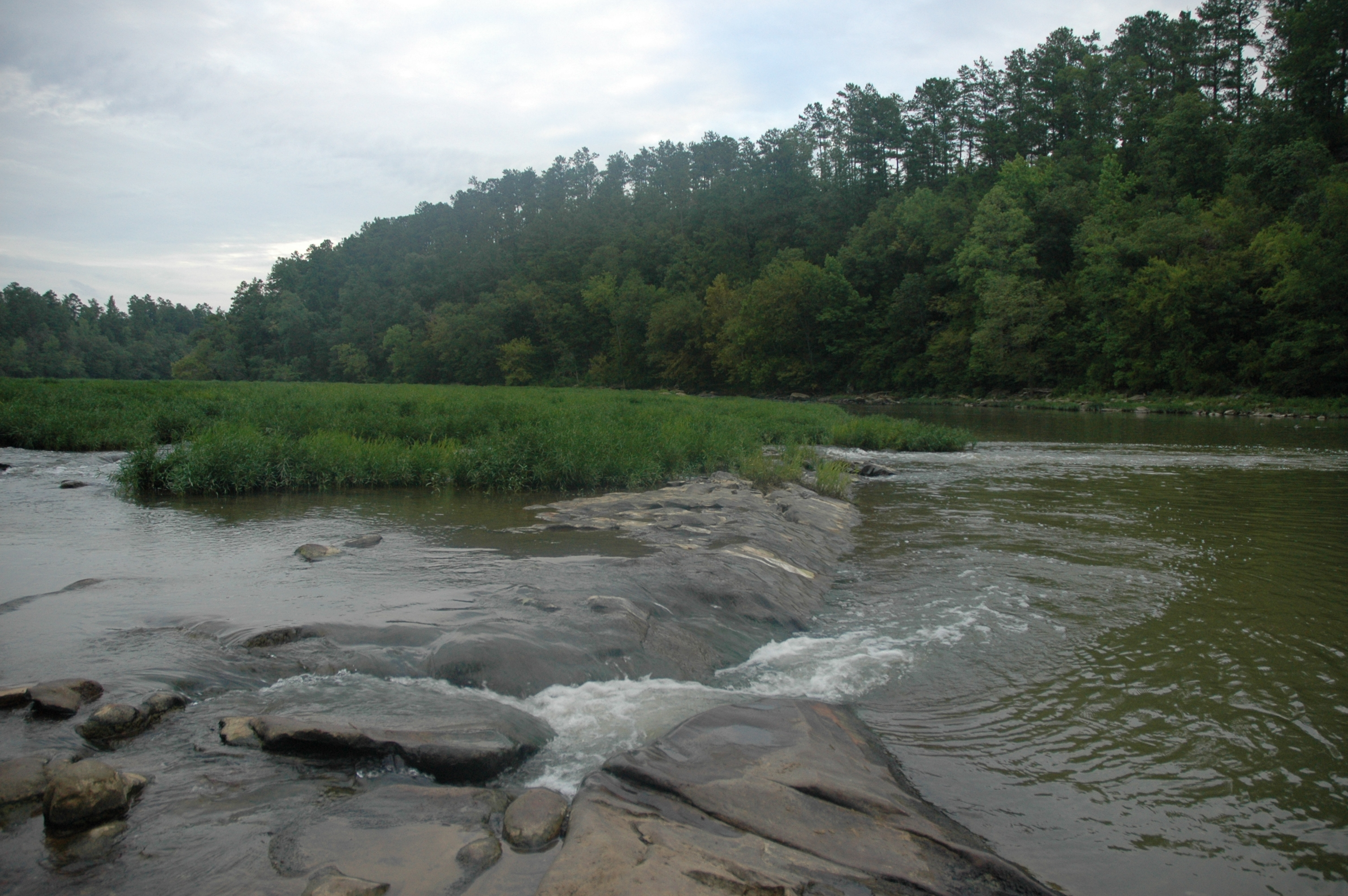 At Cahaba River National Wildlife Refuge in Alabama. Photographer: Garry Tucker, USFWS.